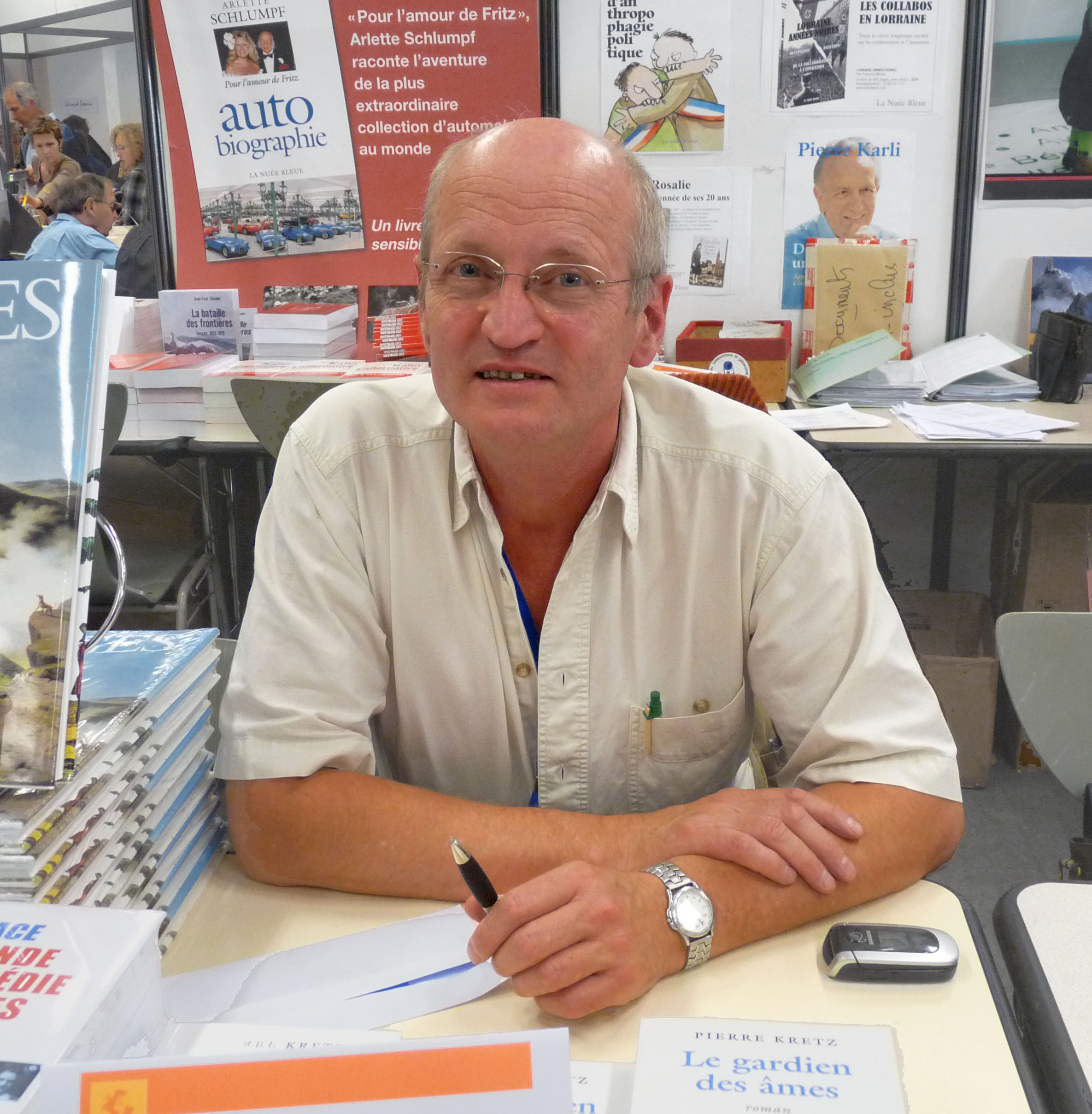 French writer Pierre Kretz